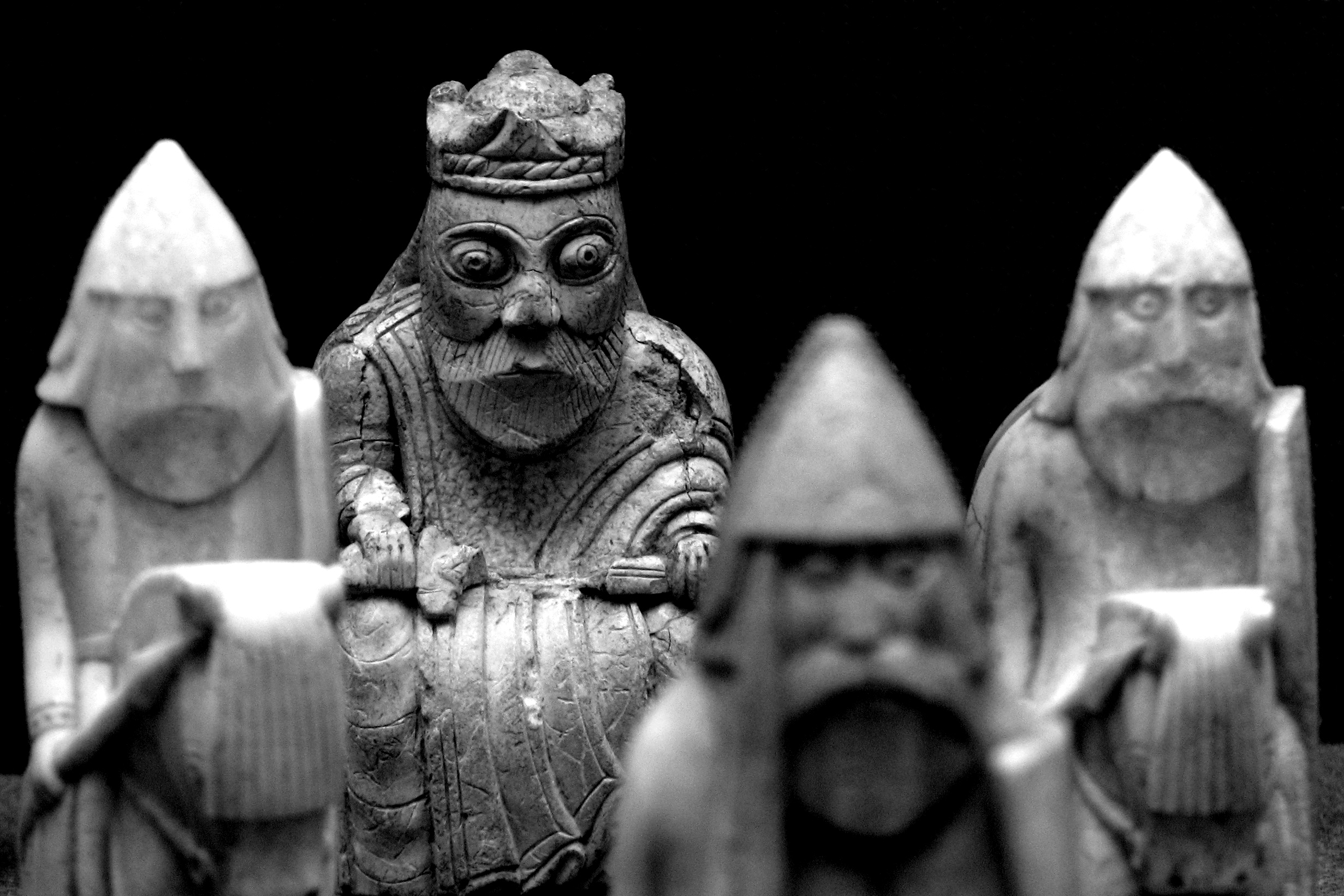 black and white, british museum, portfolio, knight, camden, chess, king, rook, Lewis Chessmen